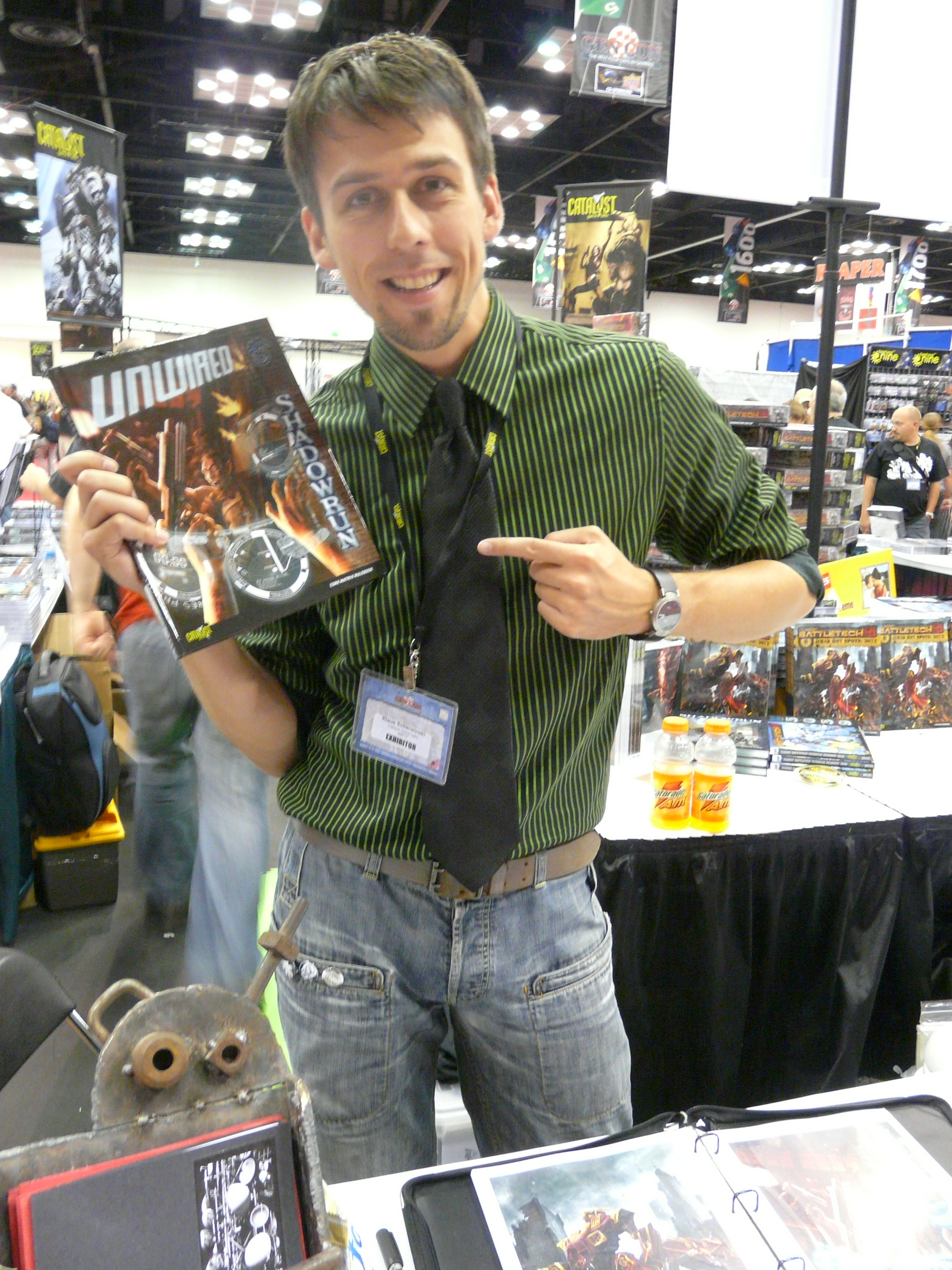 Picture of Gen Con Indy 2008 in Indianapolis, Indiana, USA. Klaus Scherwinski, illustrator